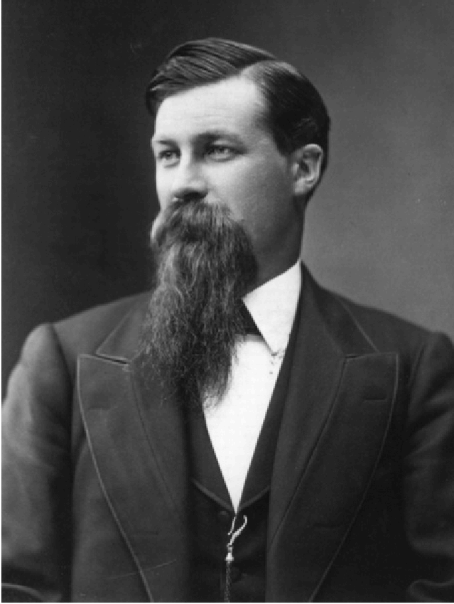 Photo of Thomas Chrowder Chamberlin in the 1870s